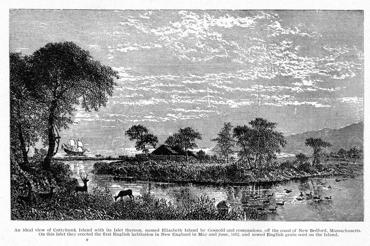 Artist's conception of the fort built by Bartholomew Gosnold's expedition on Elizabeth Islet, Cuttyhunk Is., Mass., in May/June 1602. The first English habitation in New England.